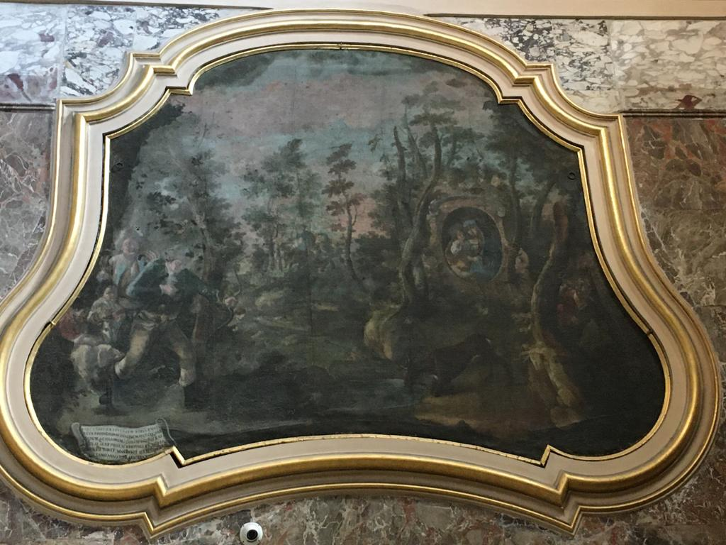 Dipinto raffigurante il rinvenimento dell'icona della Madonna della Fontana. Opera di Domenico Antonio Carella, si trova sull'altare della Madonna nella chiesa matrice di Francavilla Fontana.